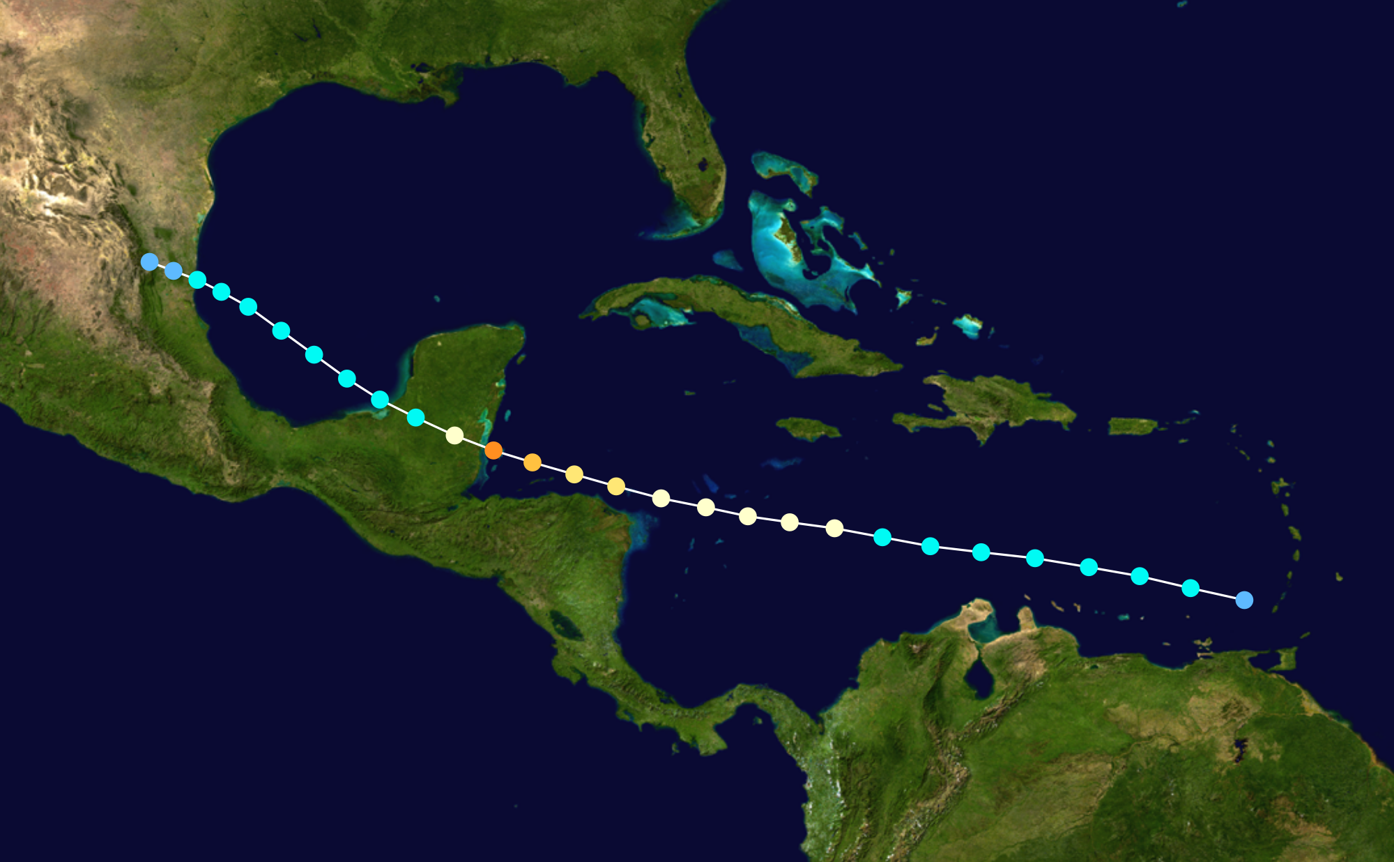 1931 Atlantic hurricane 5 track. Uses the color scheme from the Saffir-Simpson Hurricane Scale.